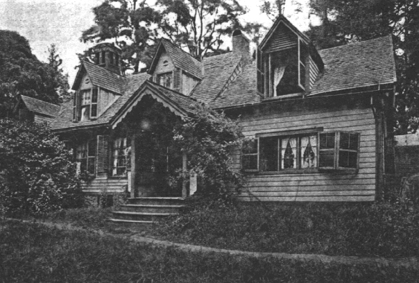 Gothic Revival exterior added to Mandeville House by Richard Upjohn during his ownership of the house (1852–78). This have since been removed to restore the original Colonial-era appearance